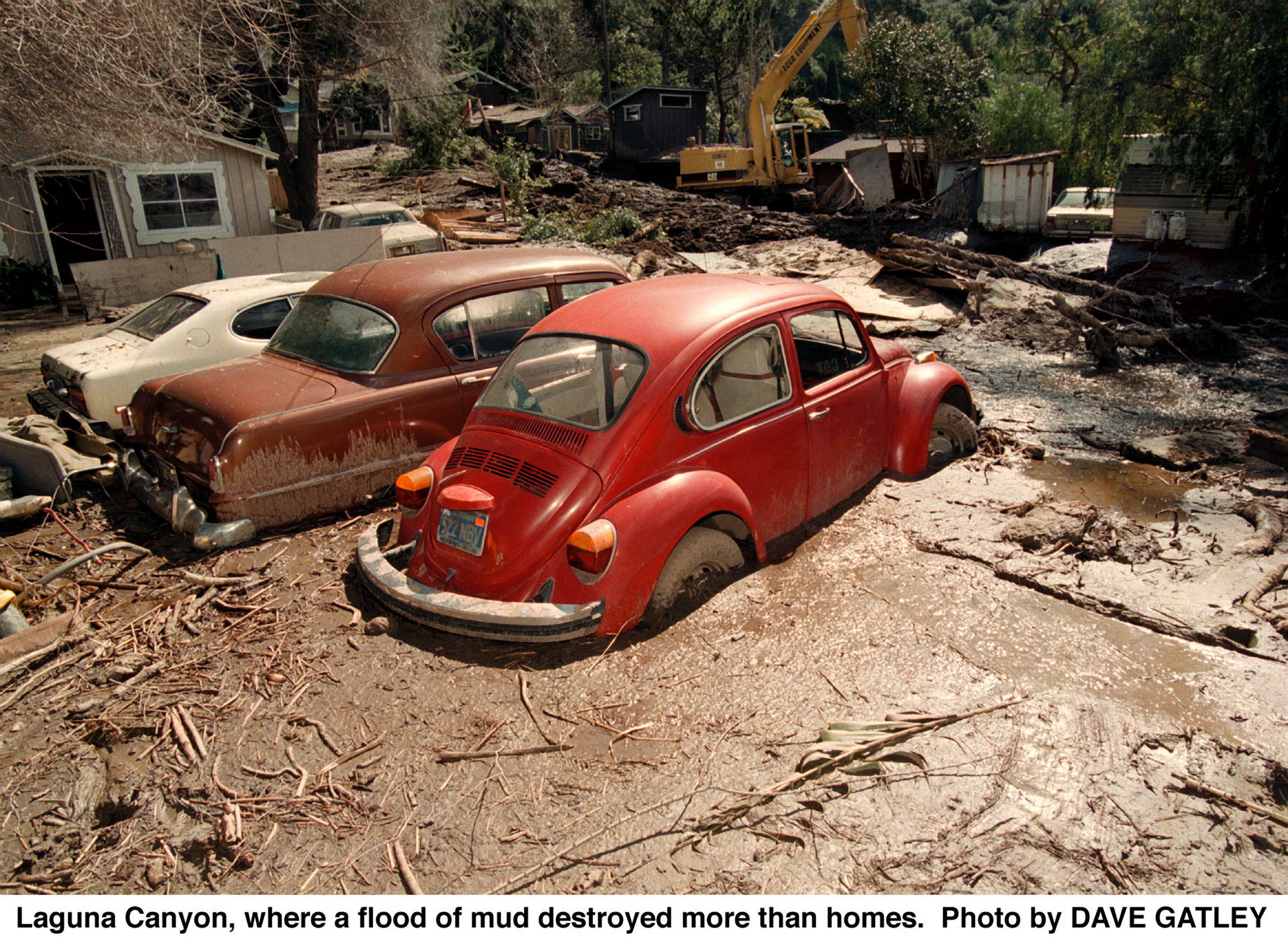 Laguna Canyon, CA, 3/3/1998 -- Laguna Canyon, where a flood of mud destroyed more than homes. Photo by DAVE GATLEY/FEMA News Photo